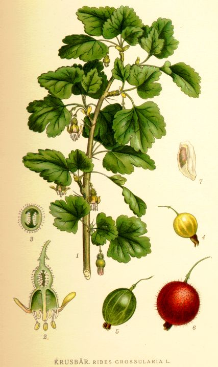 Gooseberry (Ribes uva-crispa L., syn. R. grossularia L.)